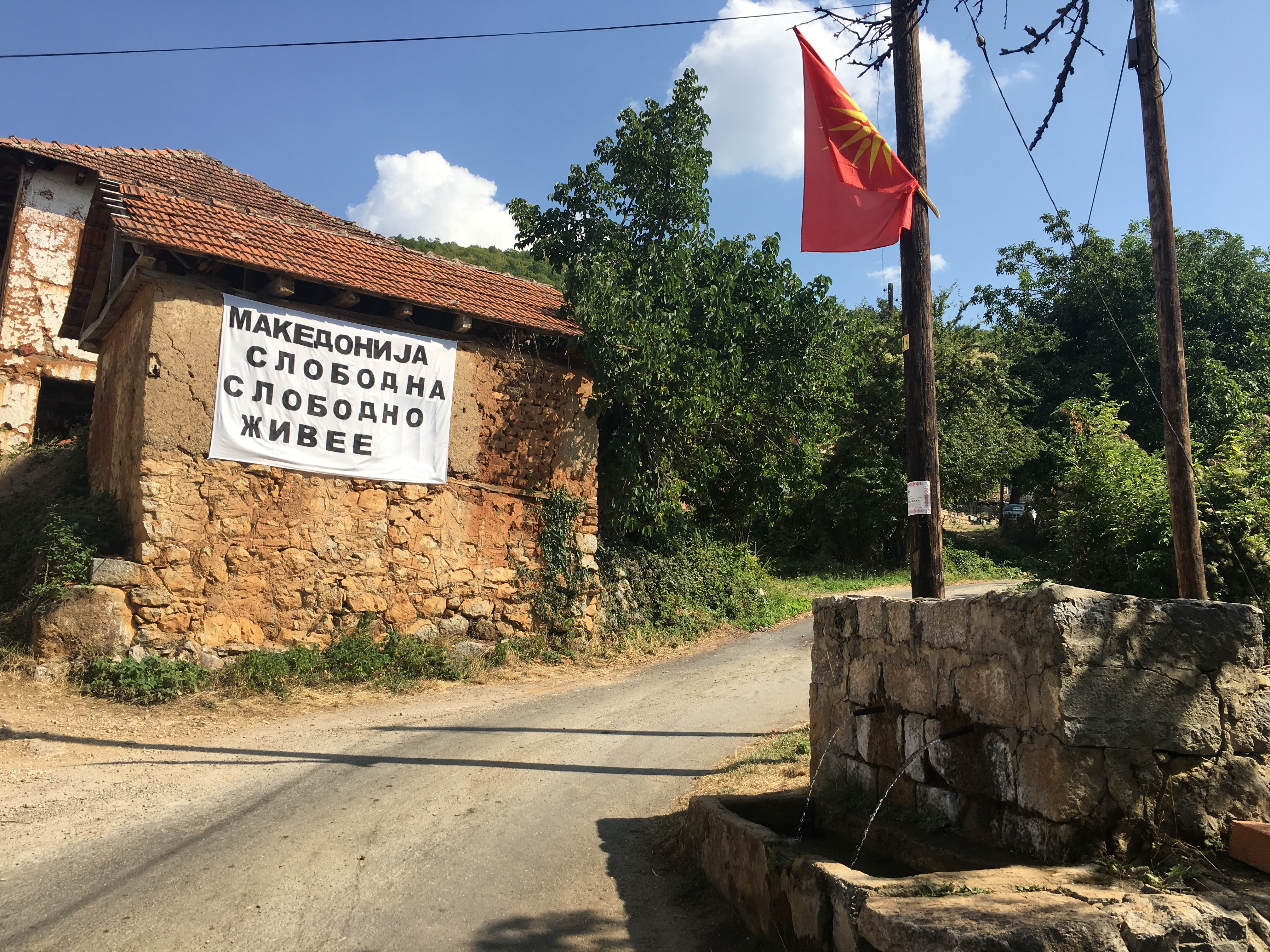 A street through the village of Ramne